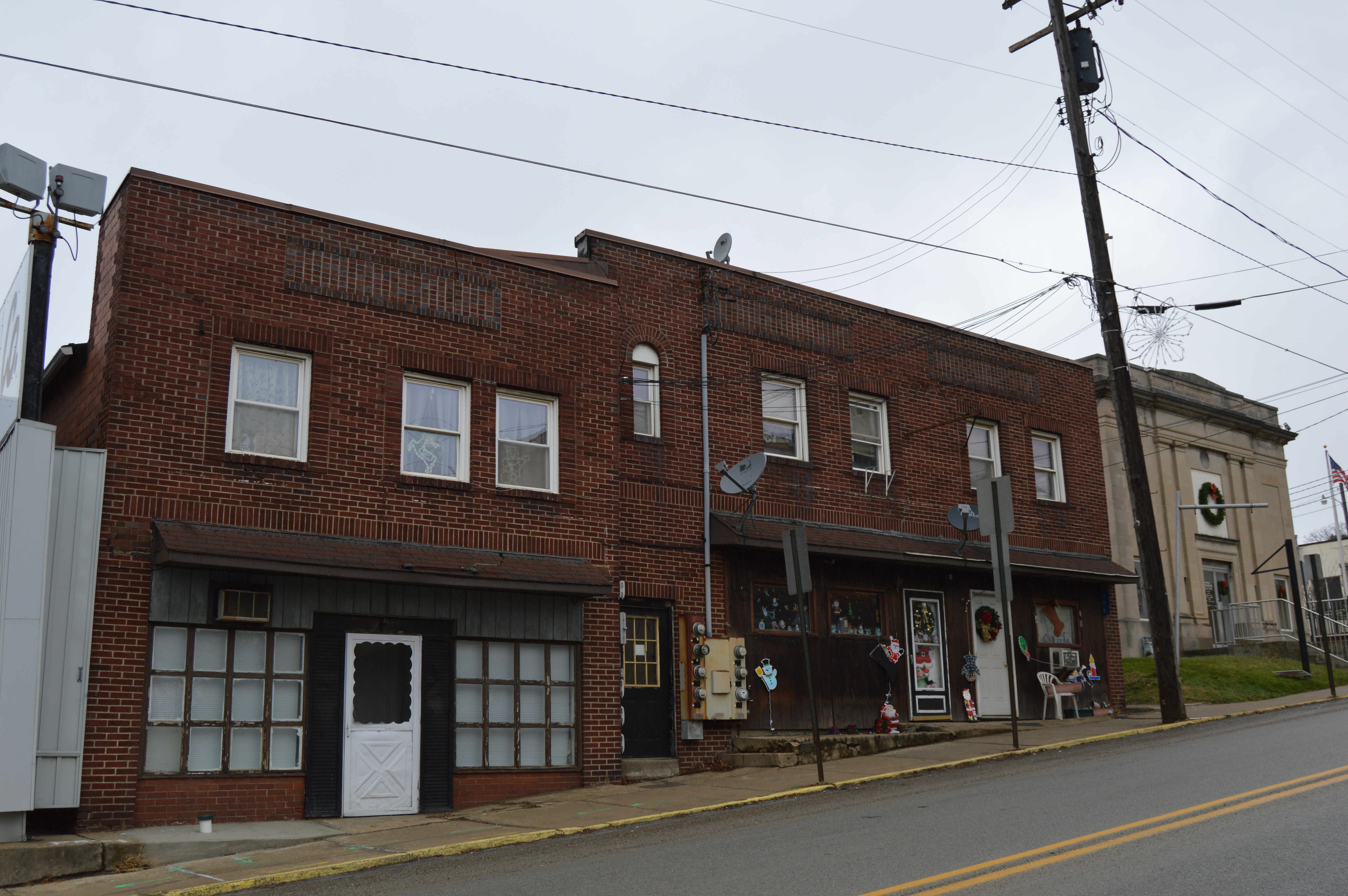 Buildings on the western side of the 100 block of N. Main Street (Pennsylvania Route 68) in Chicora, Pennsylvania, United States.